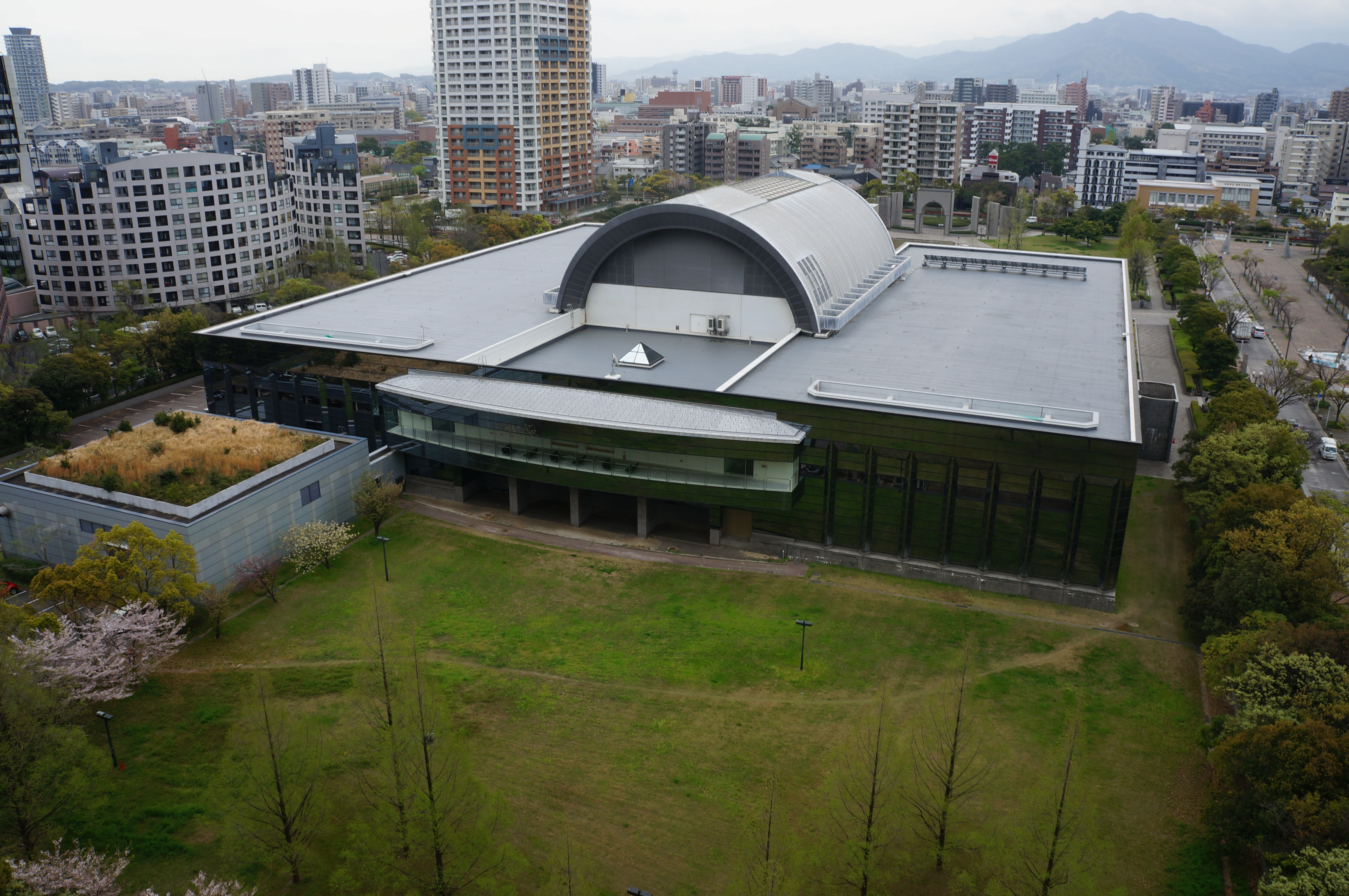 Japan scenes